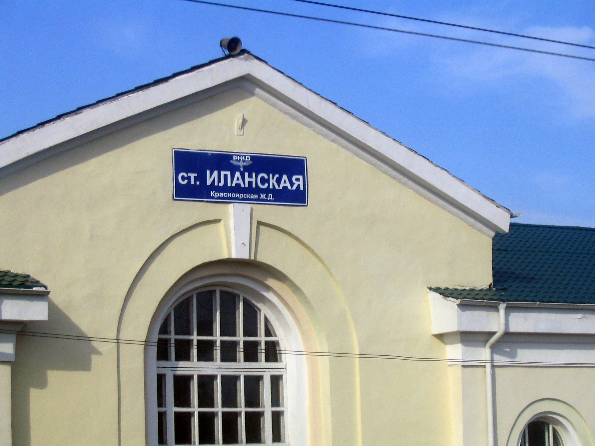 Picture of Ilanskaya station in Ilansky, Russia on the trans-Siberian railway. Taken by me 7/06 and released into the public domain